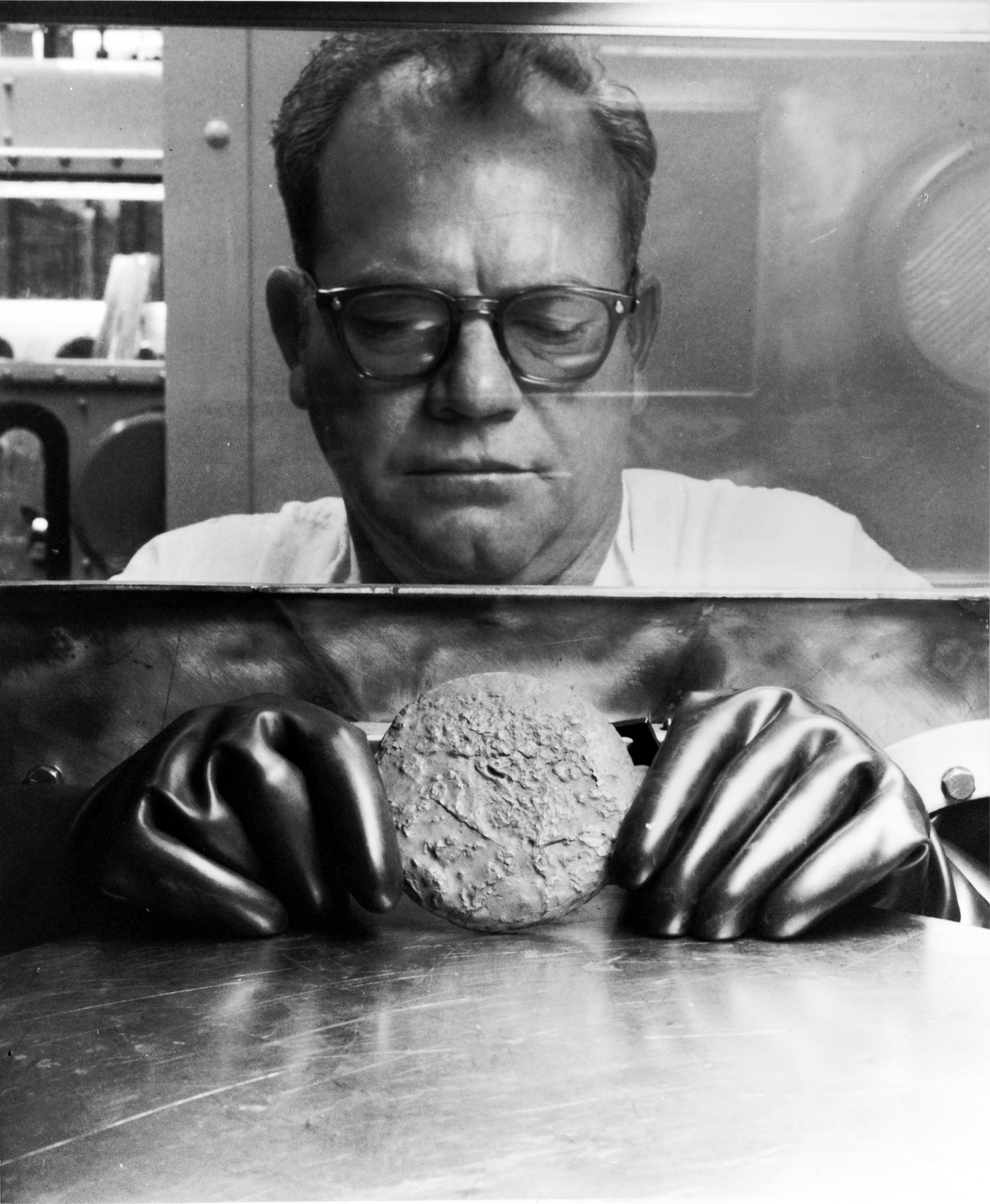 Rocky Flats Plant View of a worker holding a plutonium button. Plutonium, a man-made substance, was rare. scraps resulting from production and plutonium recovered from retired nuclear weapons were reprocessed into valuable pure-plutonium metal.